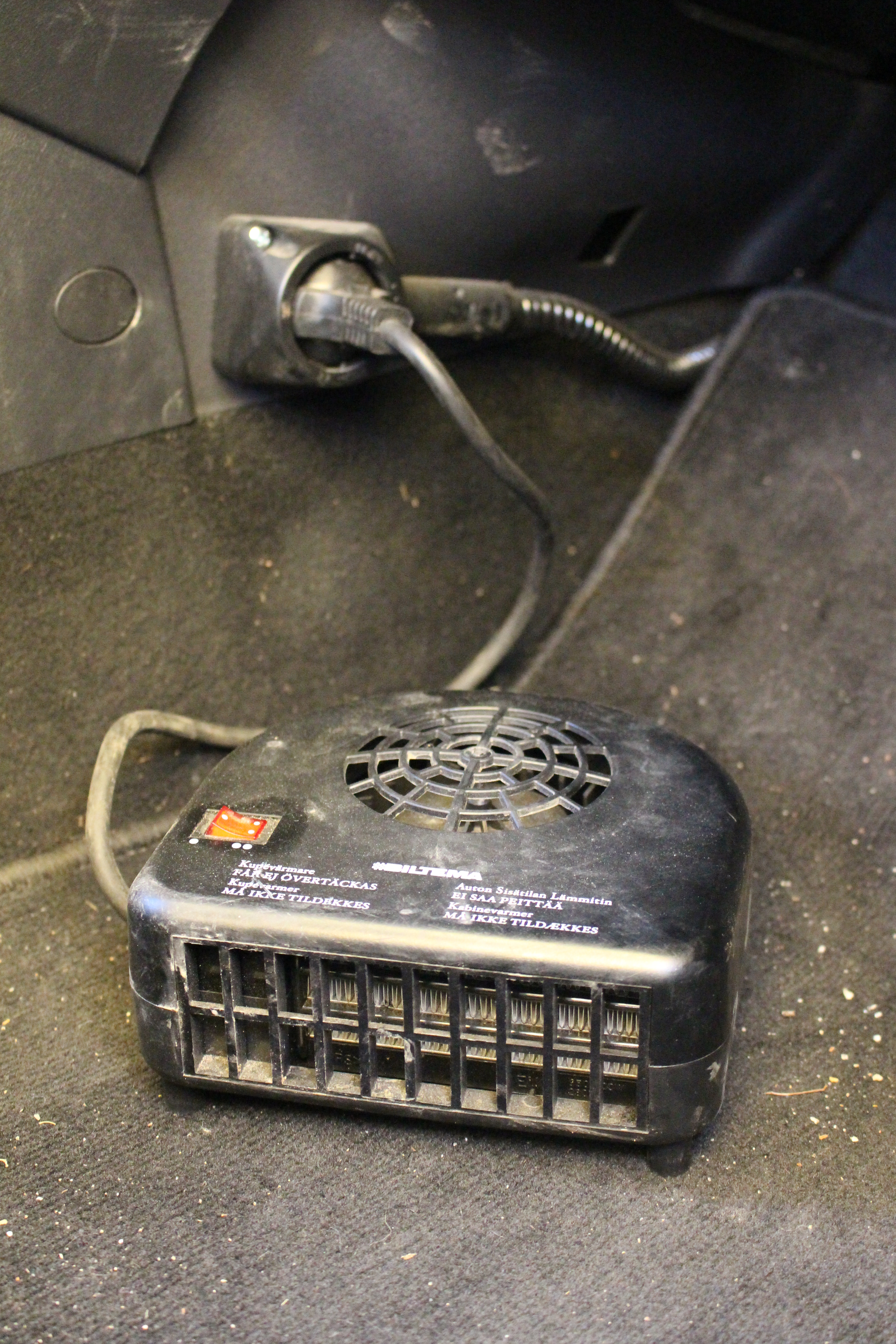 Cab Heater